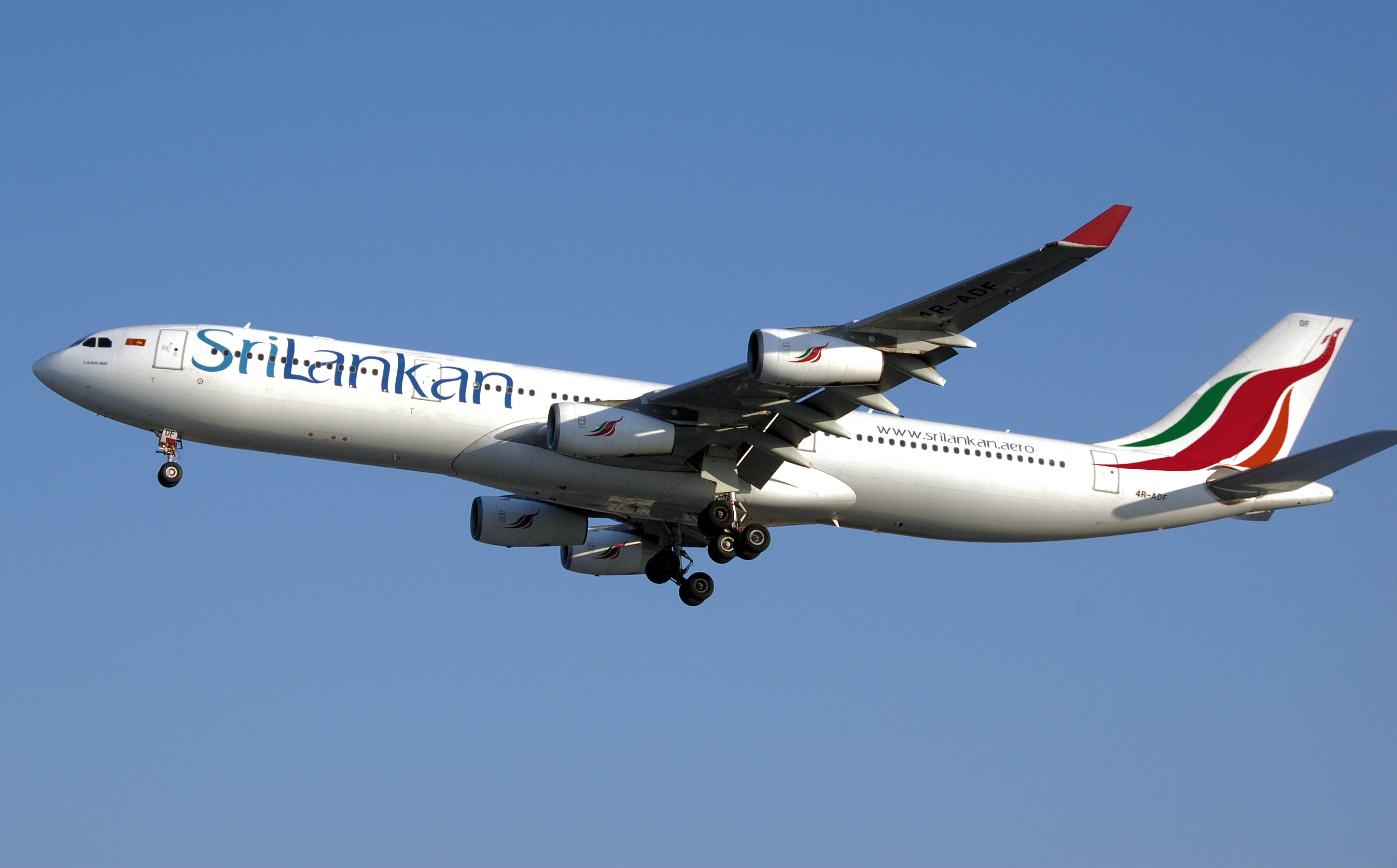 A SriLankan Airlines A340-300 (registered 4R-ADF) lands at London Heathrow Airport, England.